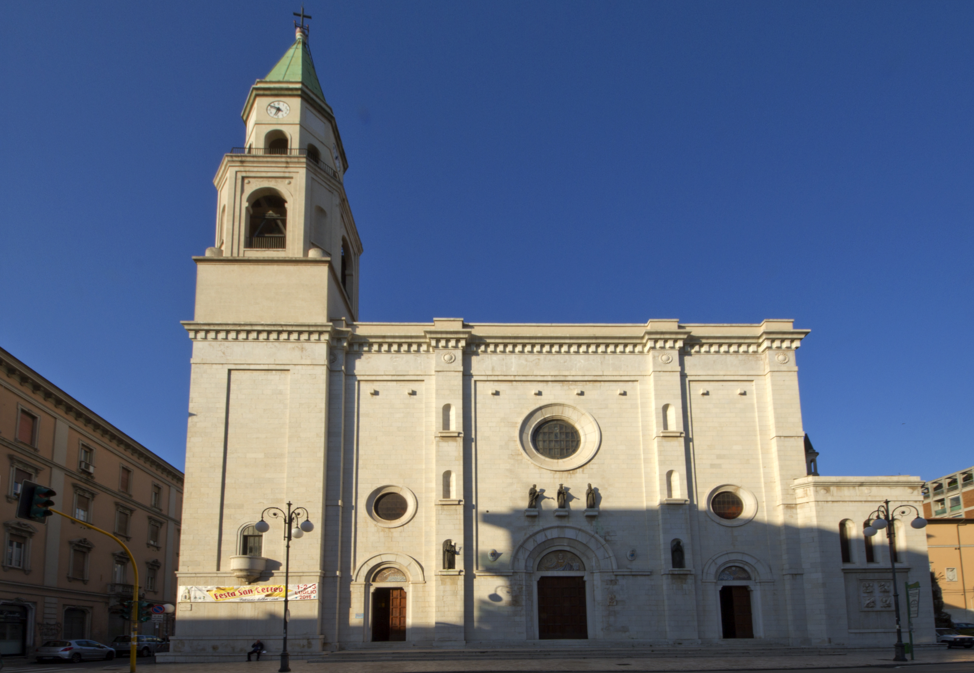 Pescara, Province of Pescara, Italy